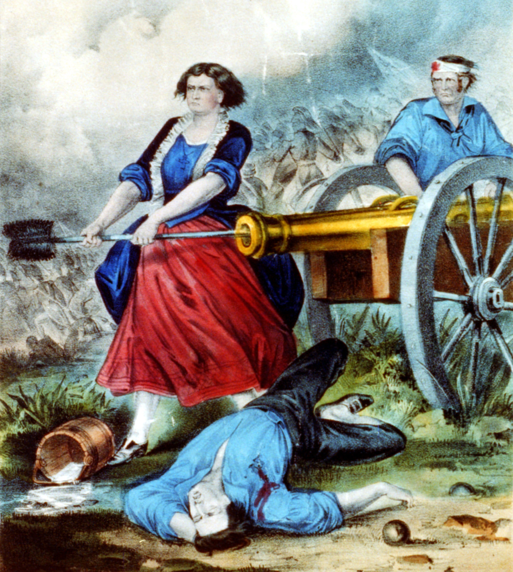 The women of '76: "Molly Pitcher" the heroine of Monmouth